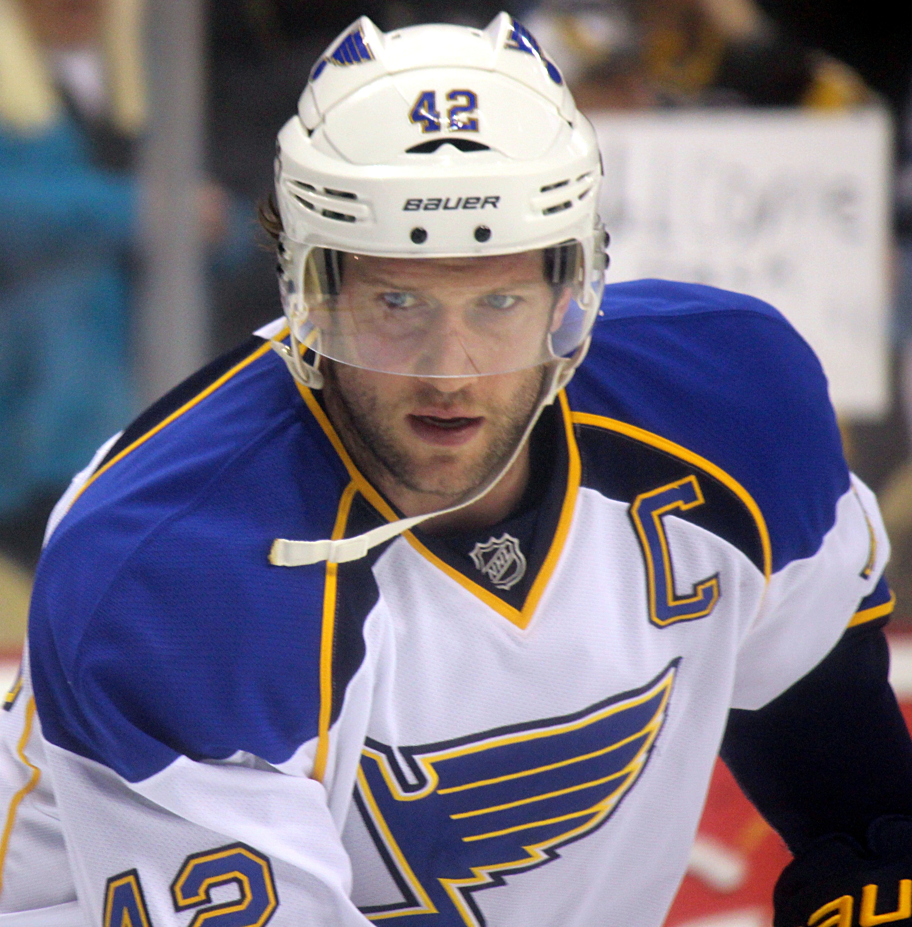 St. Louis Blues captain David Backes warms up prior to a game against the Pittsburgh Penguins, March 23, 2014, at Consol Energy Center in Pittsburgh, PA.